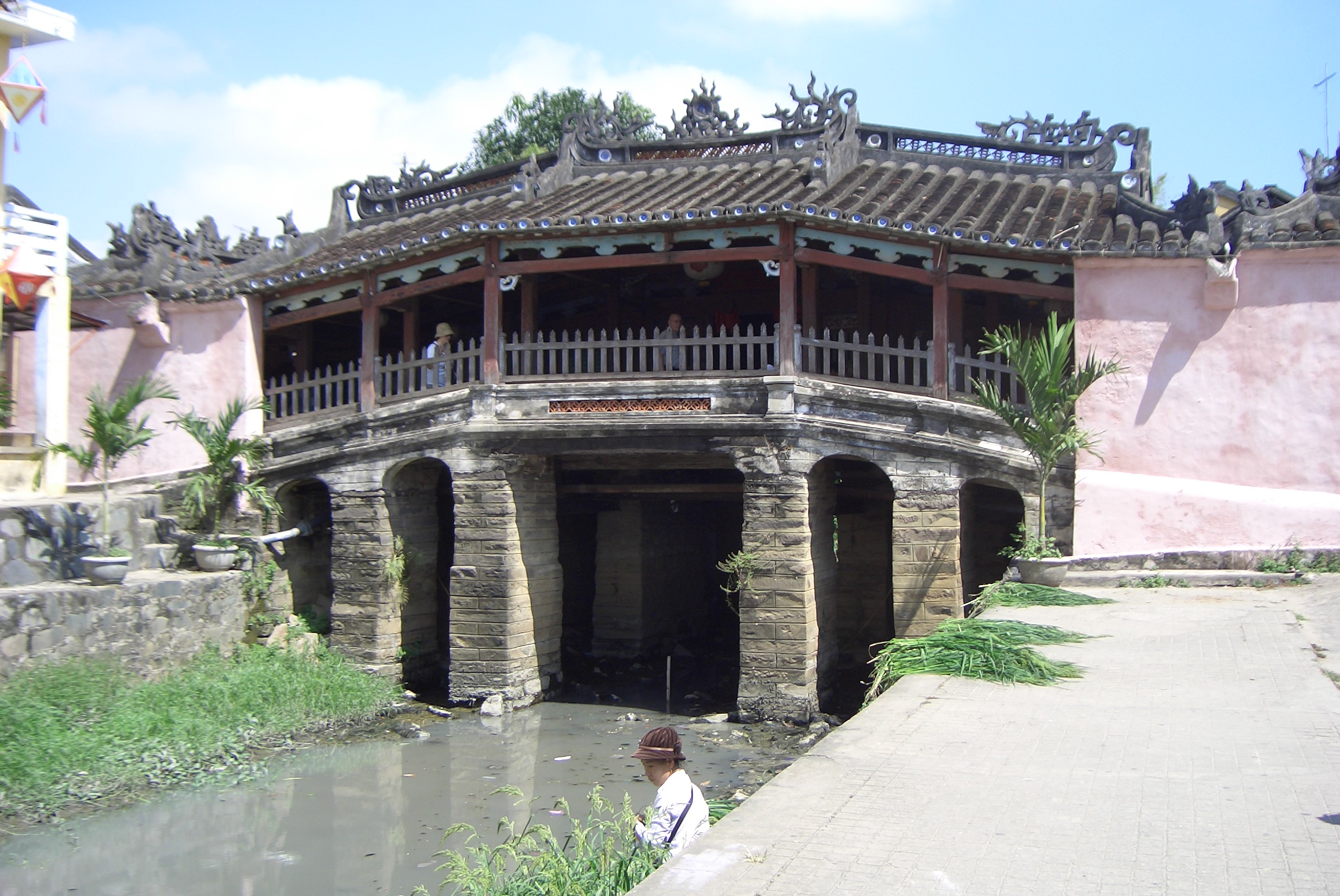 Description: Japanese Bridge in Hoi An, Vietnam